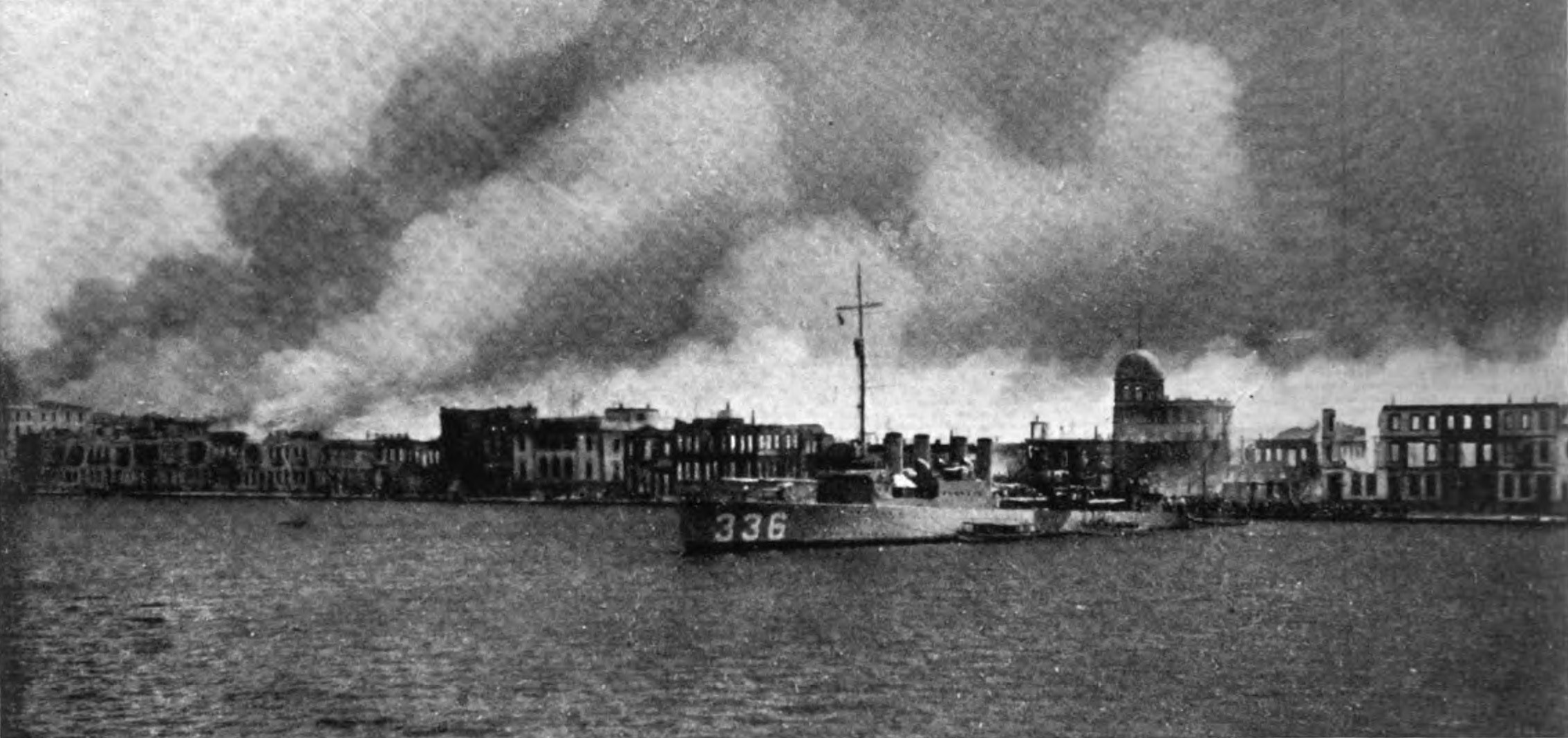 USS Litchfield (DD-336) at Smyrna on 13 September 1922: The ship helped to evacuate refugees from the fire that started raging then.